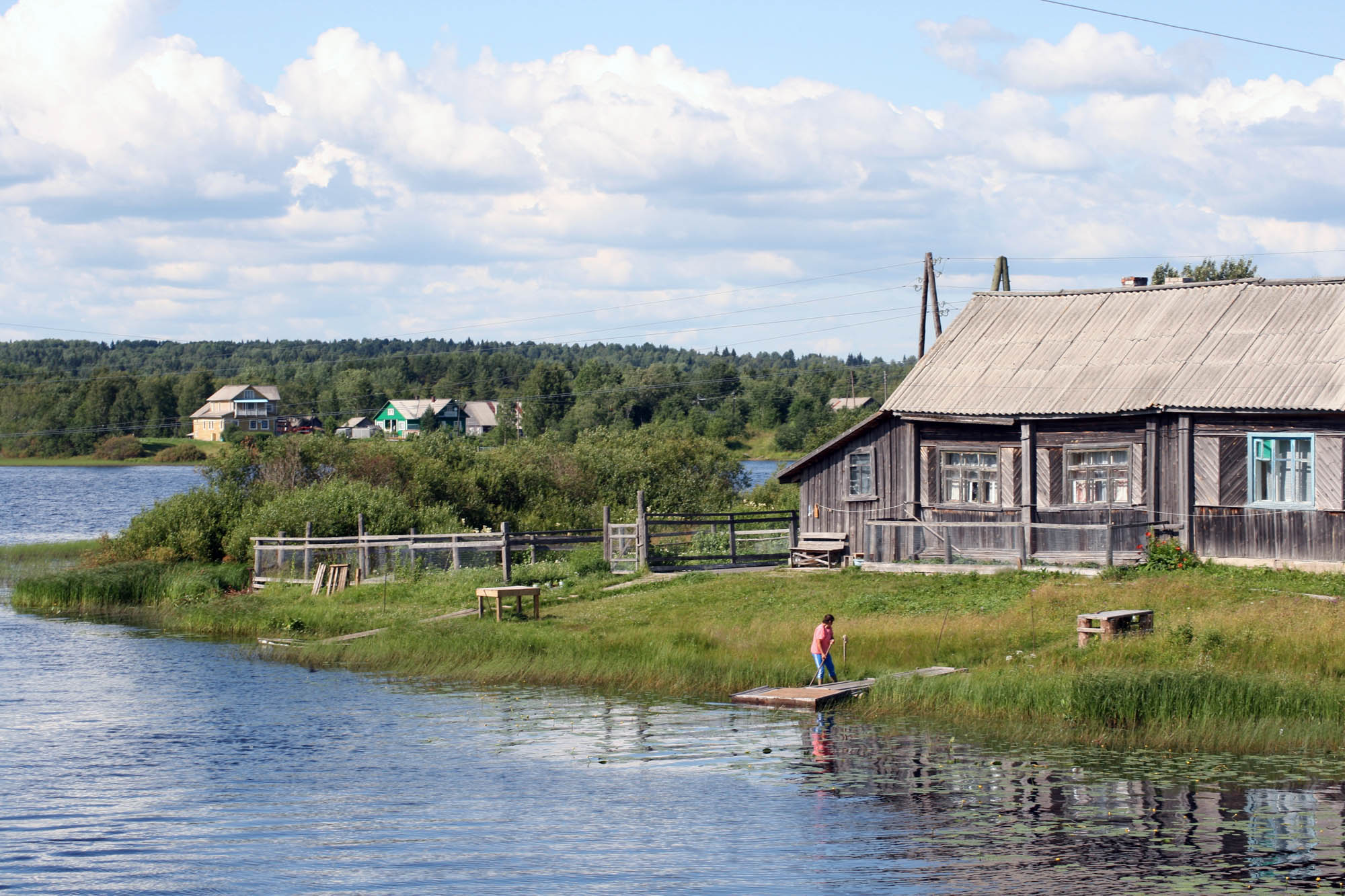 Kotkatjärvi village in Karelia